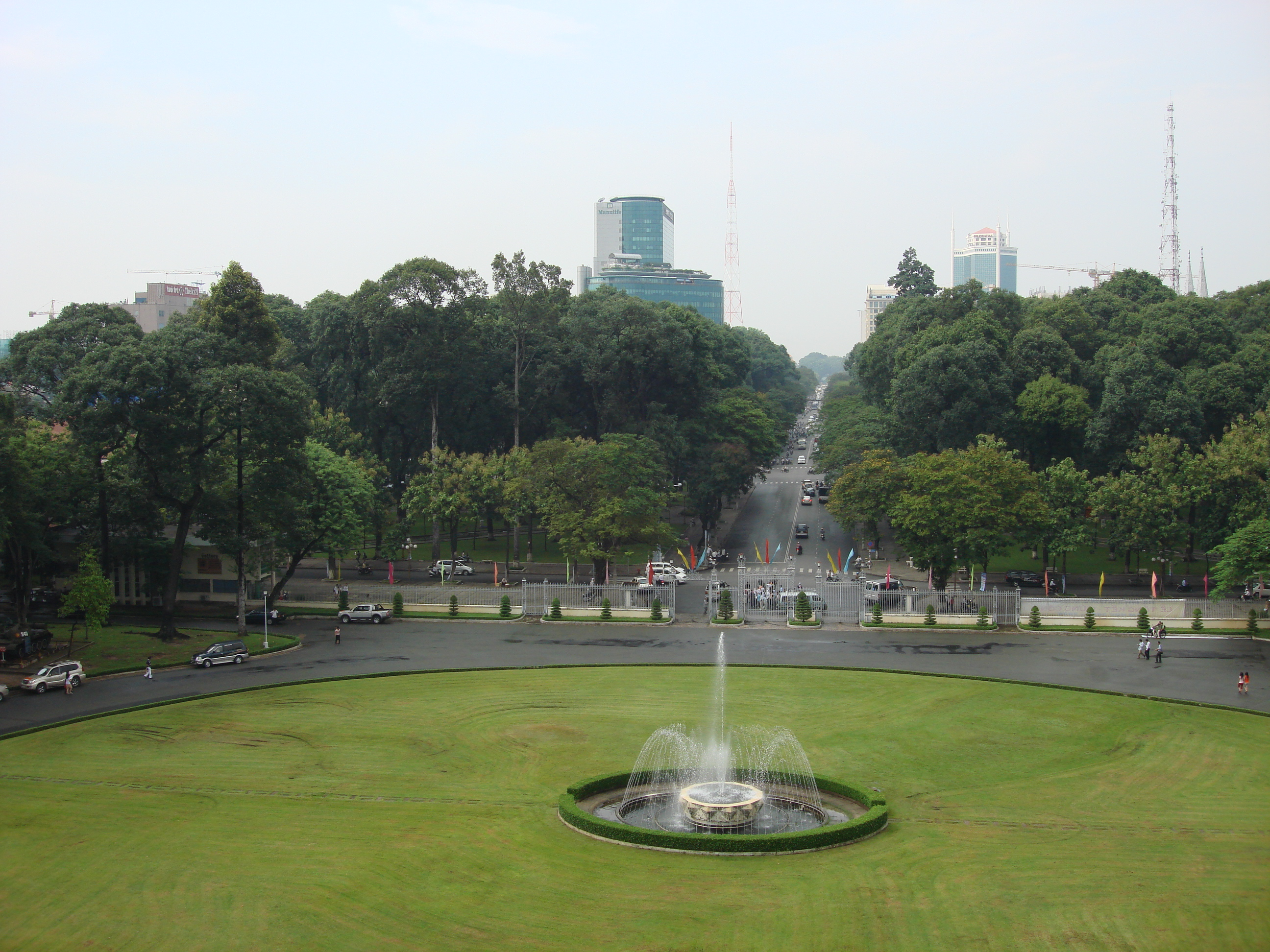 Reunification Palace formerly known as Independence Palace built on the site of the former Norodom Palace, is a historic landmark in Ho Chi Minh City, Vietnam. It was designed by architect Ngo Viet Thu as the home and workplace of the President of South Vietnam during the Vietnam War and the site of the official handover of power during the Fall of Saigon on April 30, 1975. It was then known as Independence Palace, and an NVA tank crashed through its gates, as recorded by Neil Davis.